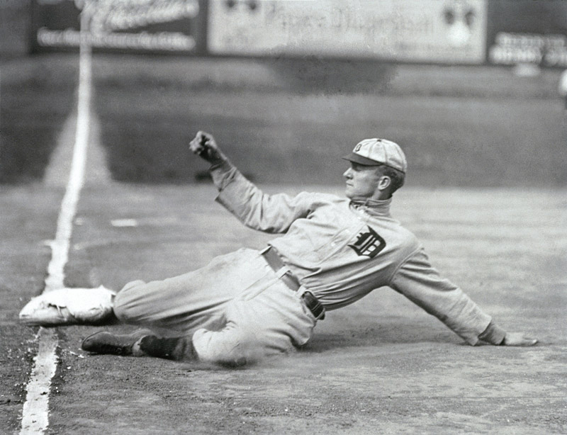 Ty Cobb of the Detroit Tigers sliding into third base